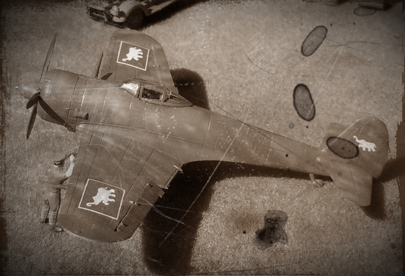 Model of a Ki-43 in Thailand. More pics of the model are in